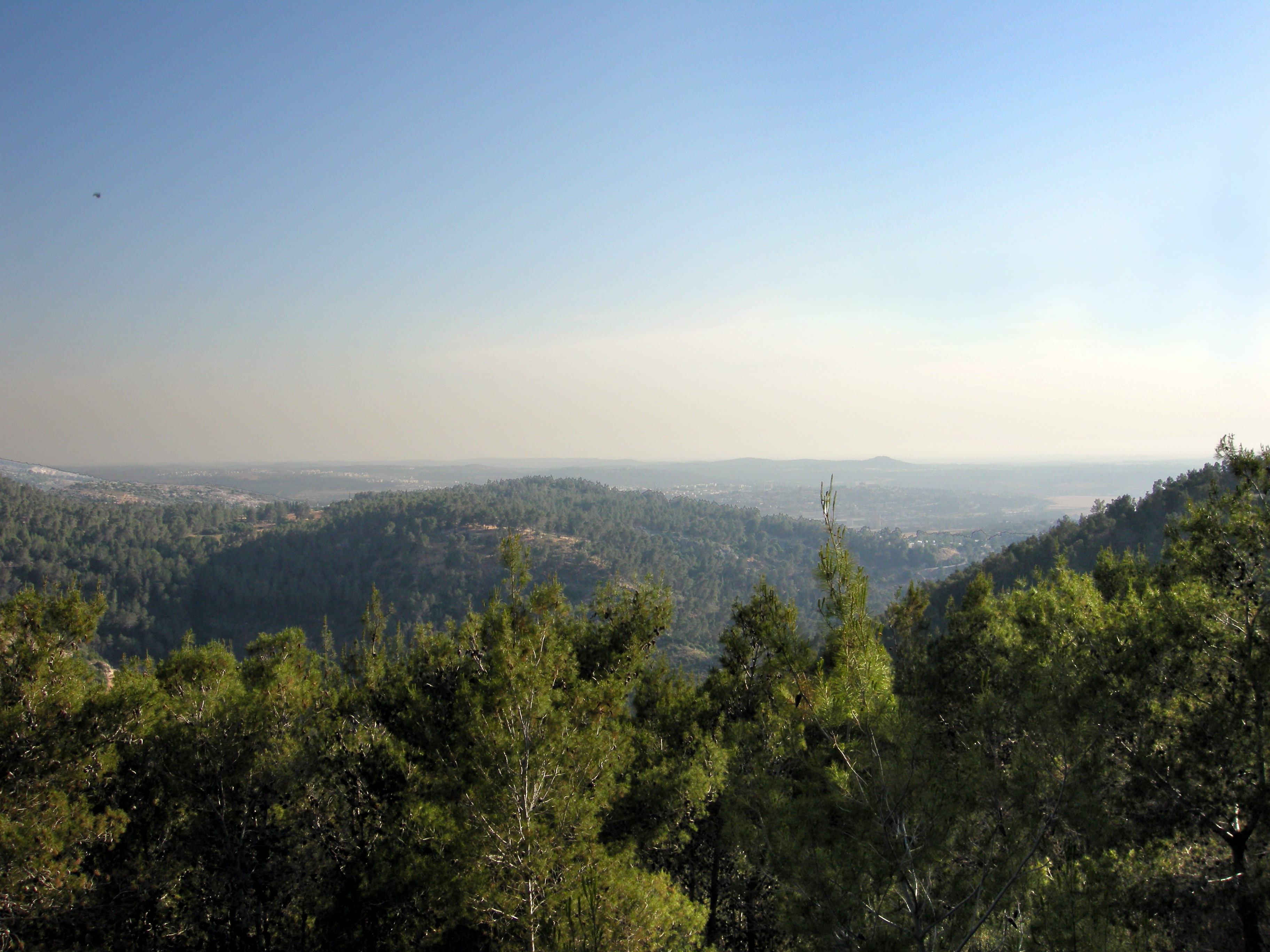 photos of Yaar Hakdoshim